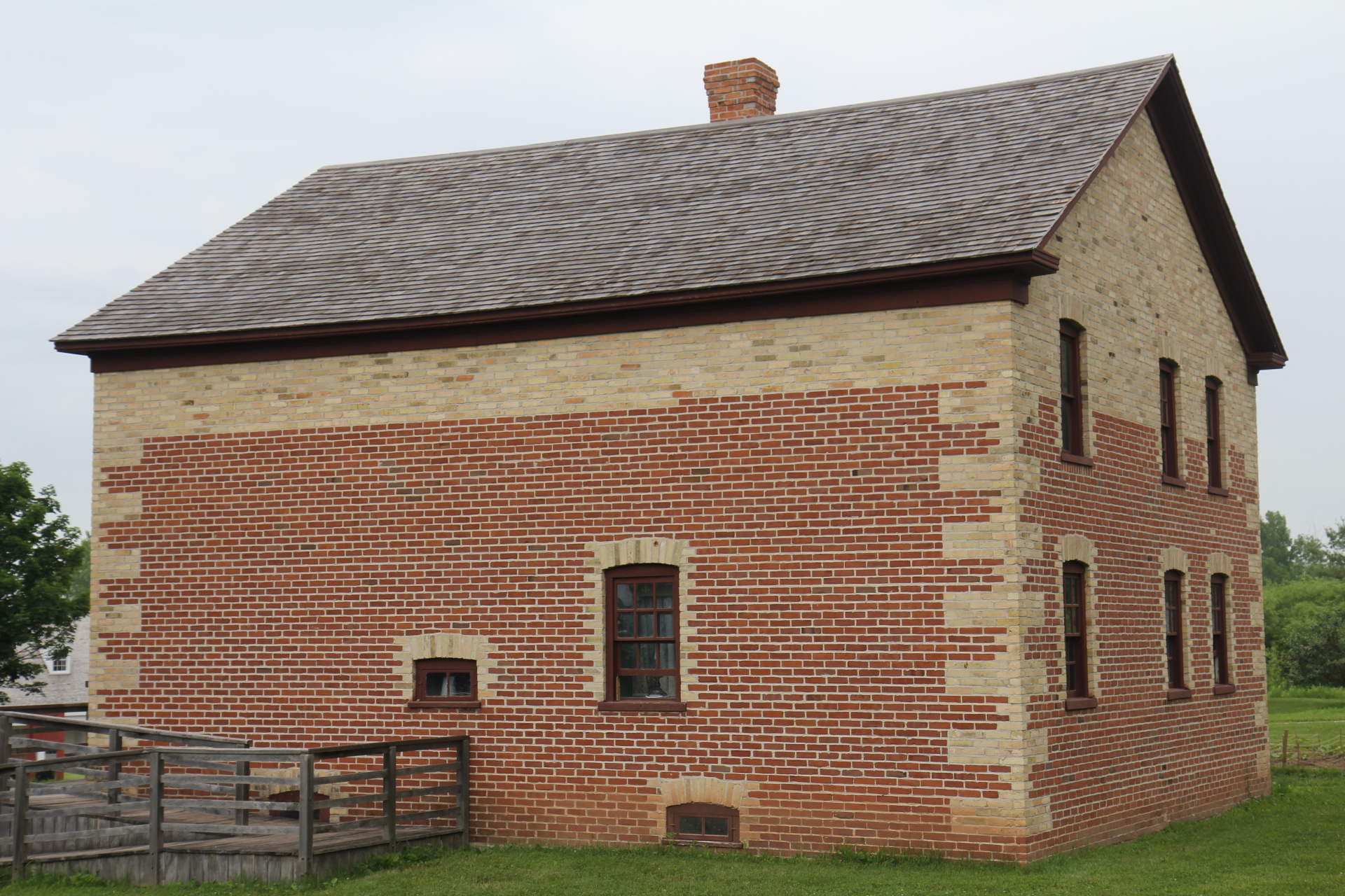 The Massart Farmstead house at the Heritage Hill State Historic Park. It was listed on the National Register of Historic Places until it was moved from Kewaunee County in 1984.